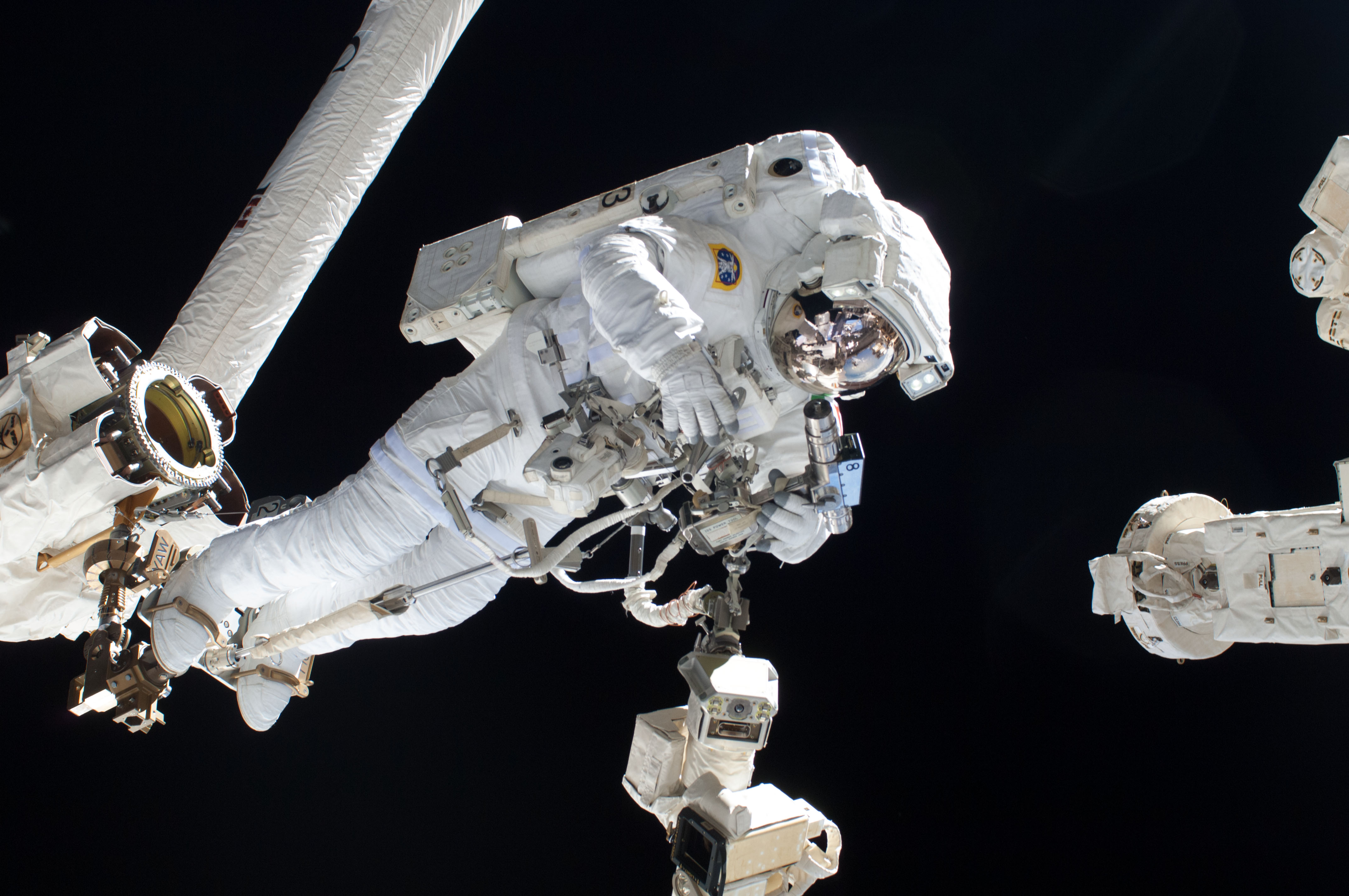 Anchored to a Canadarm2 mobile foot restraint, European Space Agency astronaut Luca Parmitano, Expedition 36 flight engineer, participates in a session of extravehicular activity (EVA) as work continues on the International Space Station. During the six-hour, seven-minute spacewalk, Parmitano and NASA astronaut Chris Cassidy (out of frame), flight engineer, prepared the space station for a new Russian module and performed additional installations on the station's backbone.